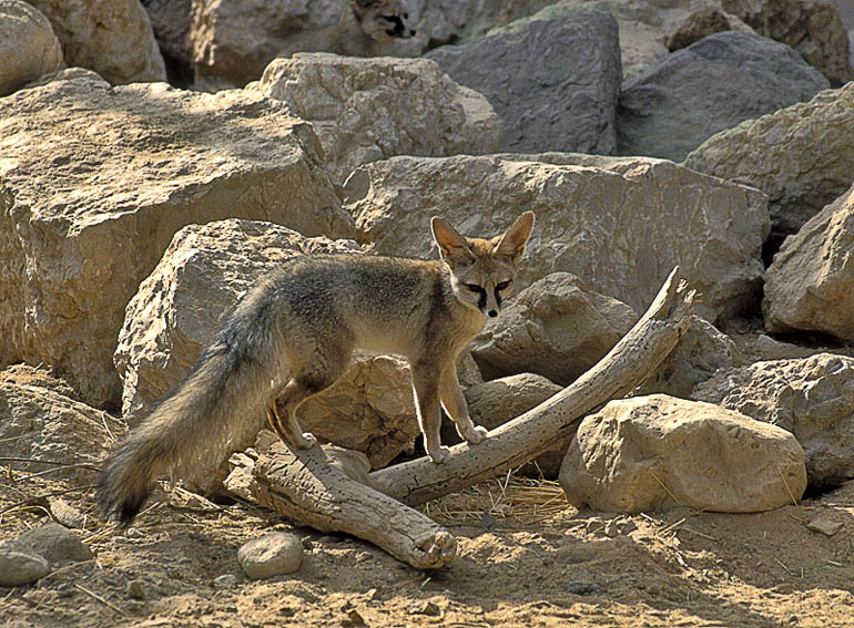 Blanford's Fox (Vulpes cana) photographed in southern Israel. The Blanford's Fox is a small fox with a long, bushy tail. The long tail is probably an important counterbalance during climbing. It occurs in Israel in the mountainous ranges of the Negev and Judean Deserts, where it inhabits steep rocky slopes. Blanford's Foxes are almost always solitary. They feed mostly on beetles, grasshoppers, ants and termites.